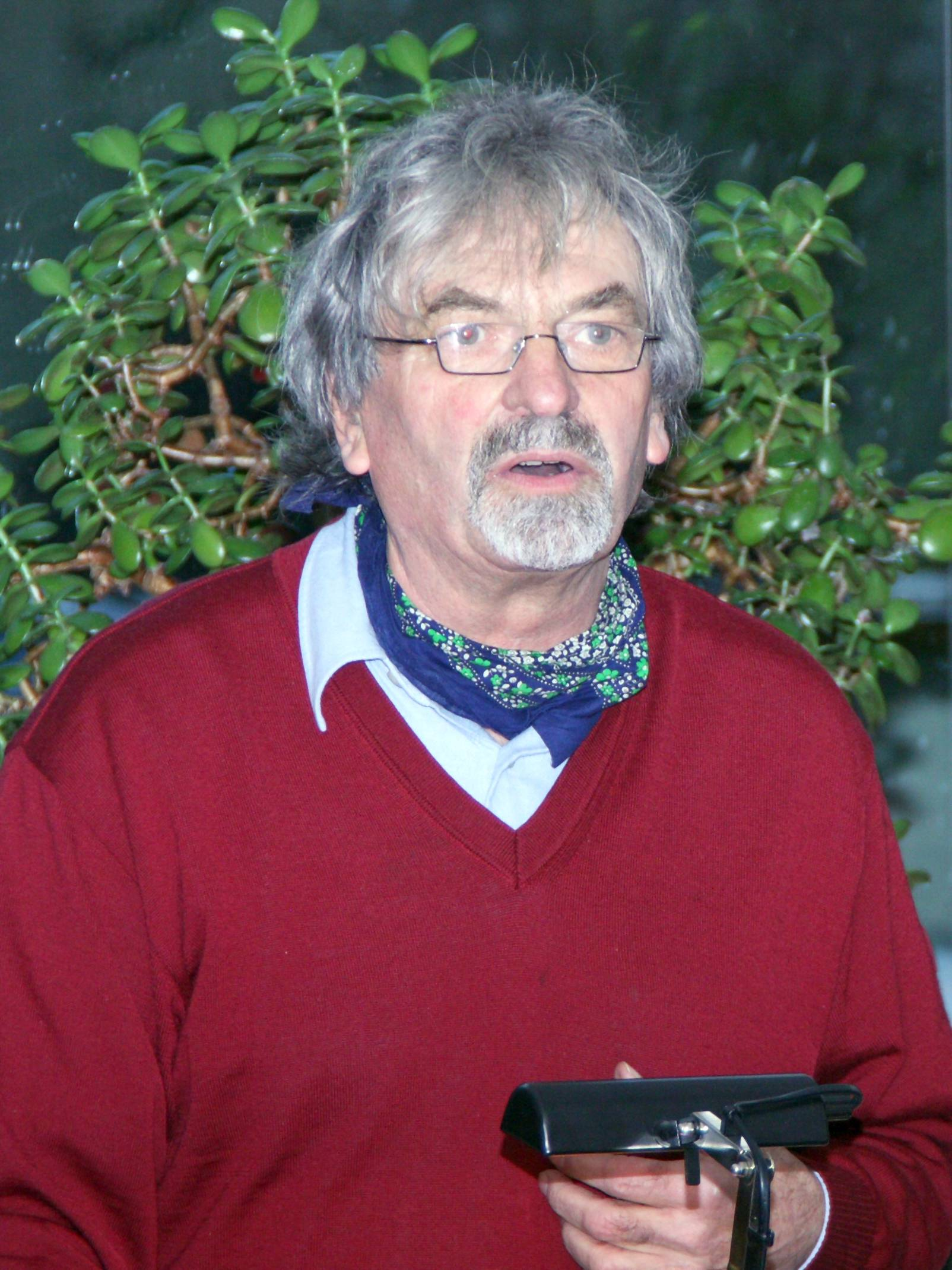 Karl Mündlein, writing in the dialect of Hohenlohe, at the Uhu-Treff in Weikersheim, Germany.